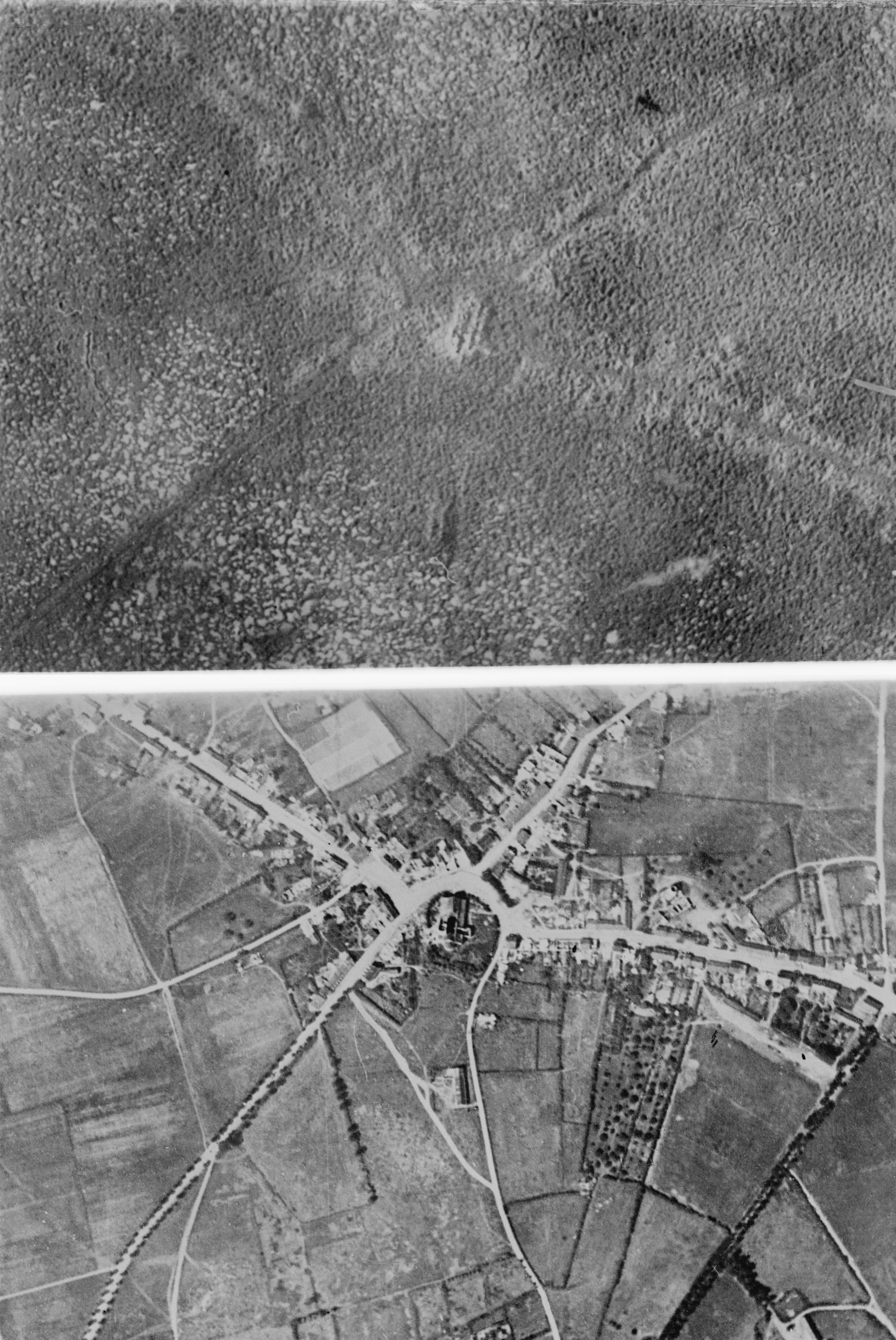 Aerial view of the village of Passchendaele (north is to the right of the photo) before and after the Third Battle of Ypres, 1917.